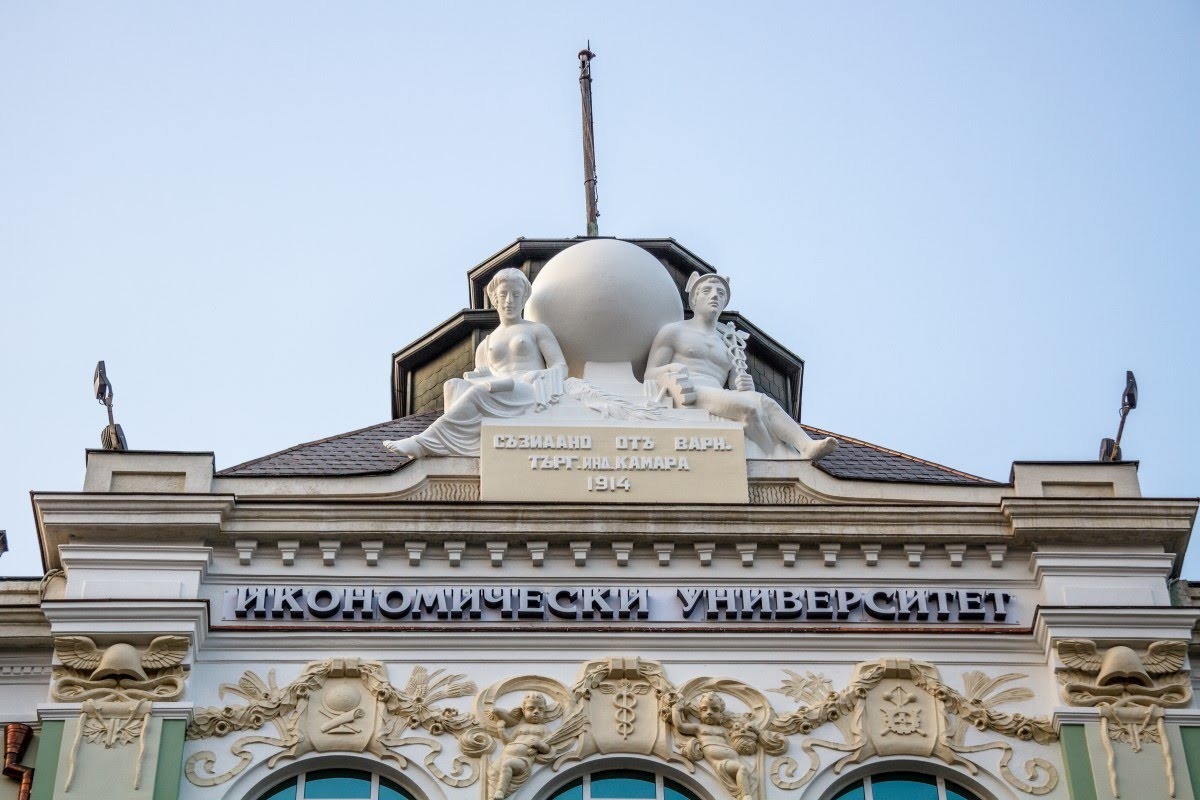 pediment_shivarov